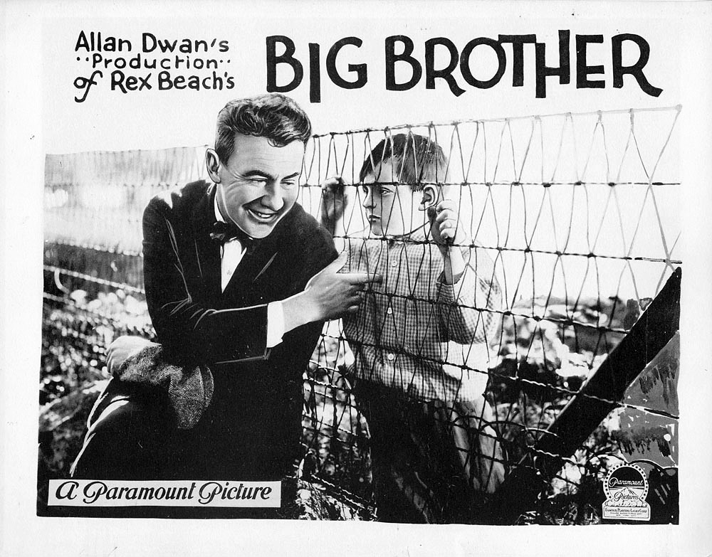 Poster for the American drama film Big Brother (1923) with Tom Moore and Mickey Bennett. The item has no copyright markings on it as can be seen in the links above.